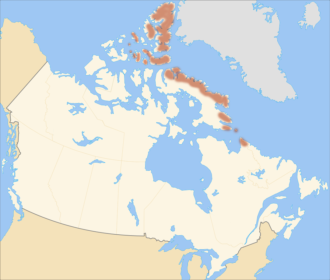 Made by me from Image:Canada (geolocalisation).svg